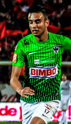 Monterrey player Jesús Zavala